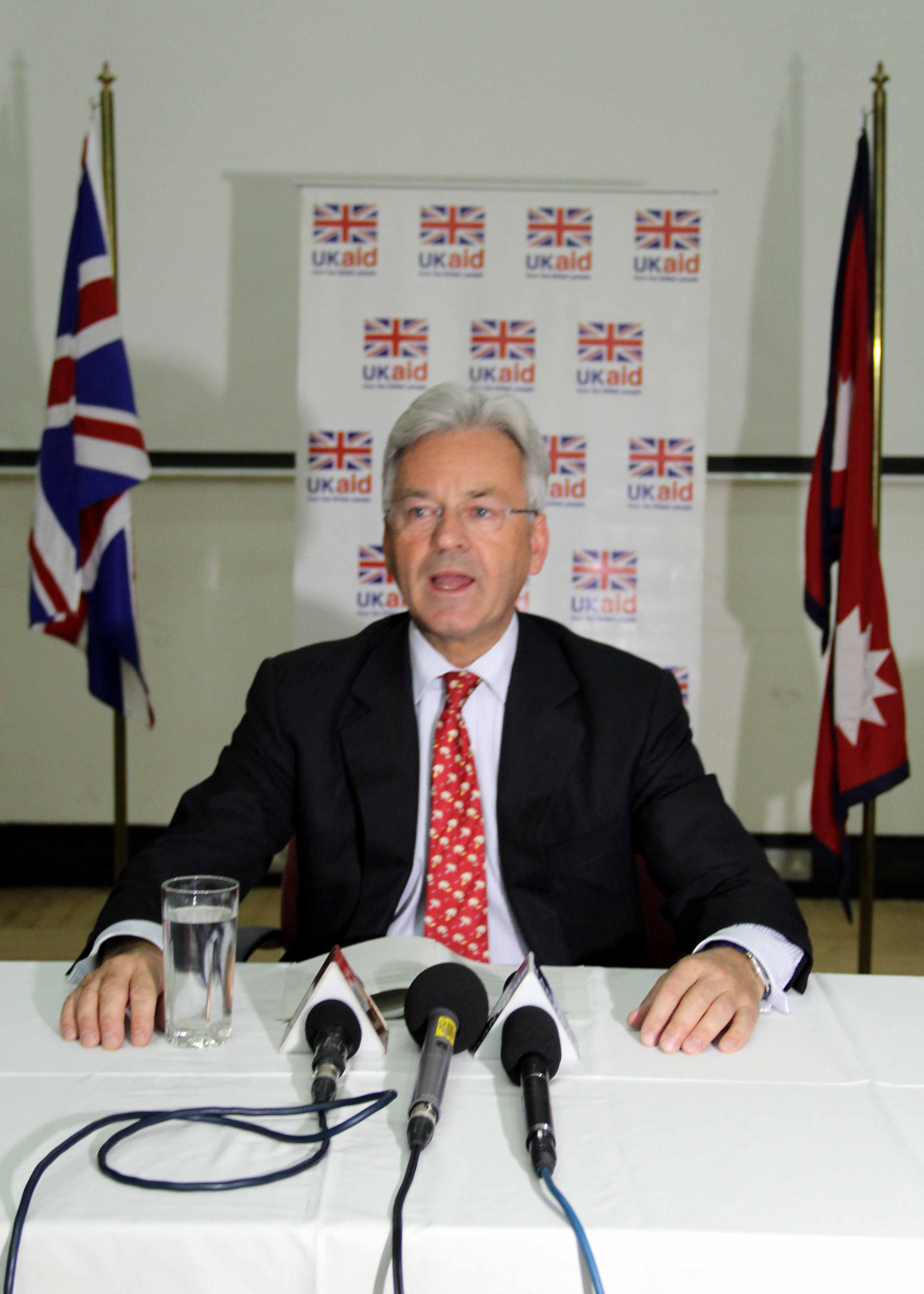 Uk Minister of State for International Development Rt Hon Alan Duncan MP 1